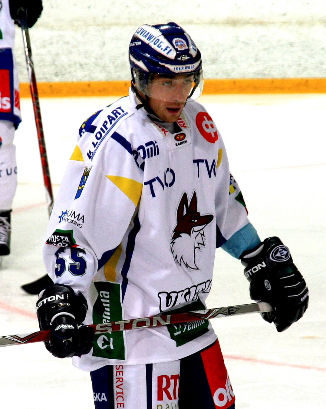 Ice Hockey Team Rauman Lukko's defender #55 Harri Tikkanen.